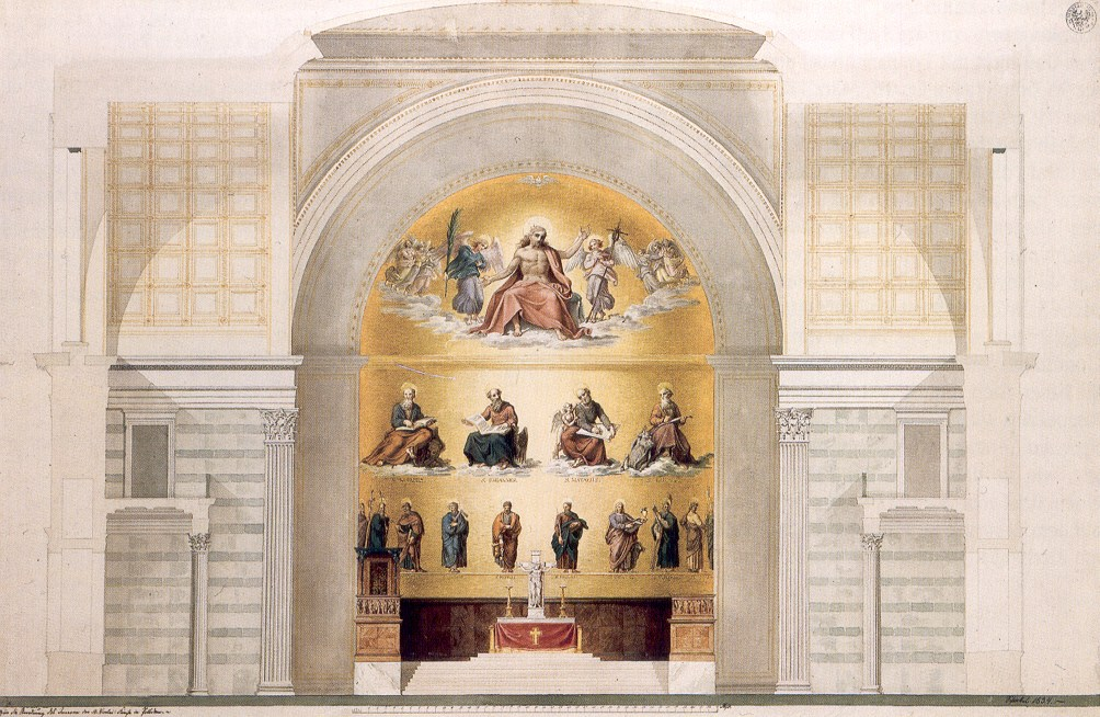 Draft of the apsis painting, St. Nikolaikirche, Potsdam, Germany